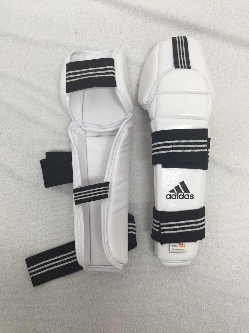 Adidas takewondo forearm guard